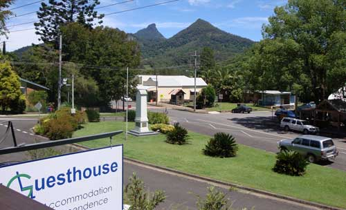 Overlooking Uki Village, with the ANZAC Memorial in the foreground and Mt Warning (and Mt Uki) in the background. The quaint little timber and corrugated iron cabin (near the pedestrian crossing) is the historic building known as "Sweetnam's Humpy", so-named from one of the early settlers in the area.